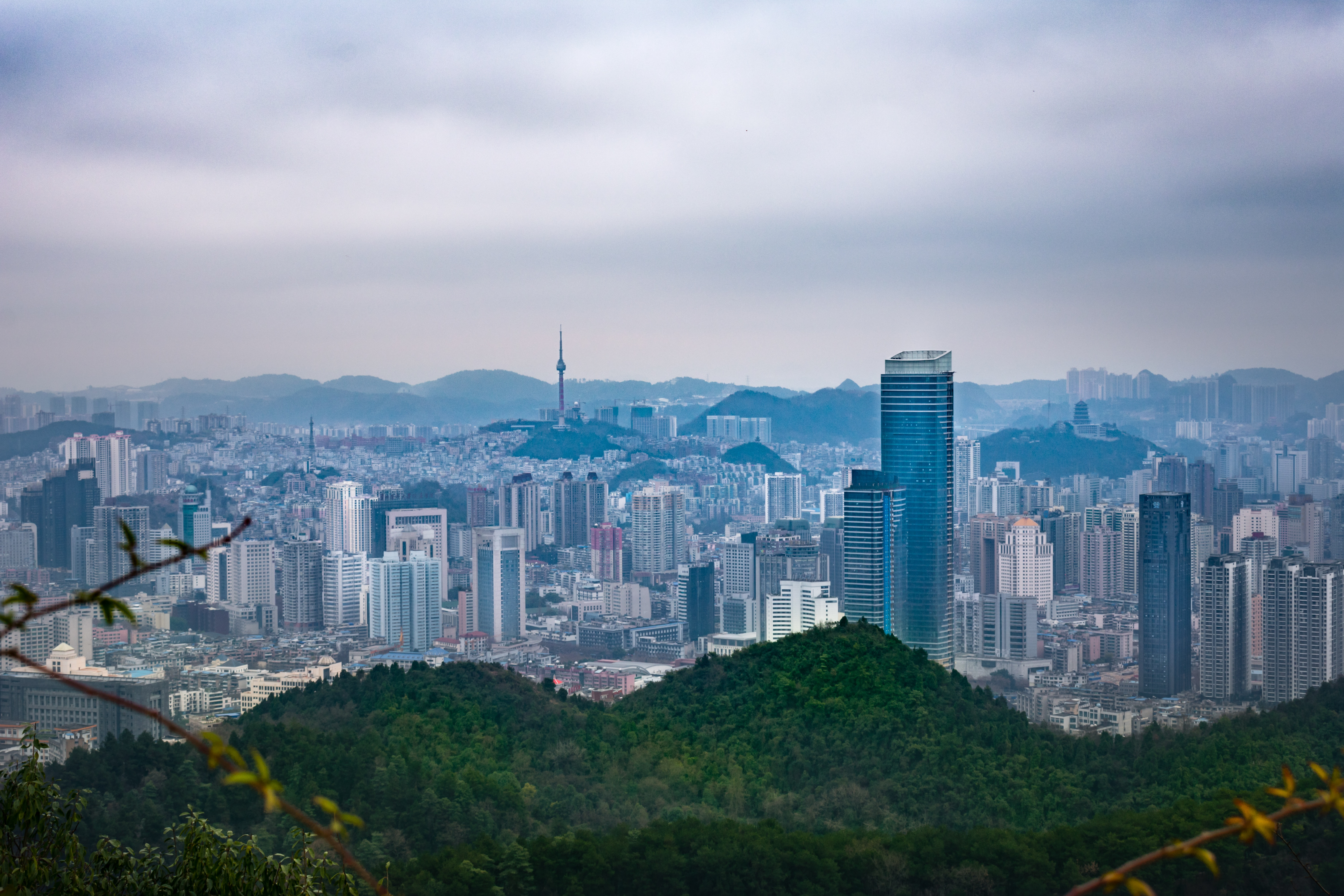 View of Guiyang, Guizhou from Neighboring Mountains. Not sure which mountains these are; help would be appreciated to identify them. The image was originally uploaded under the CC0 license. Image archive copy at the Wayback Machine (archived on 8 July 2018)